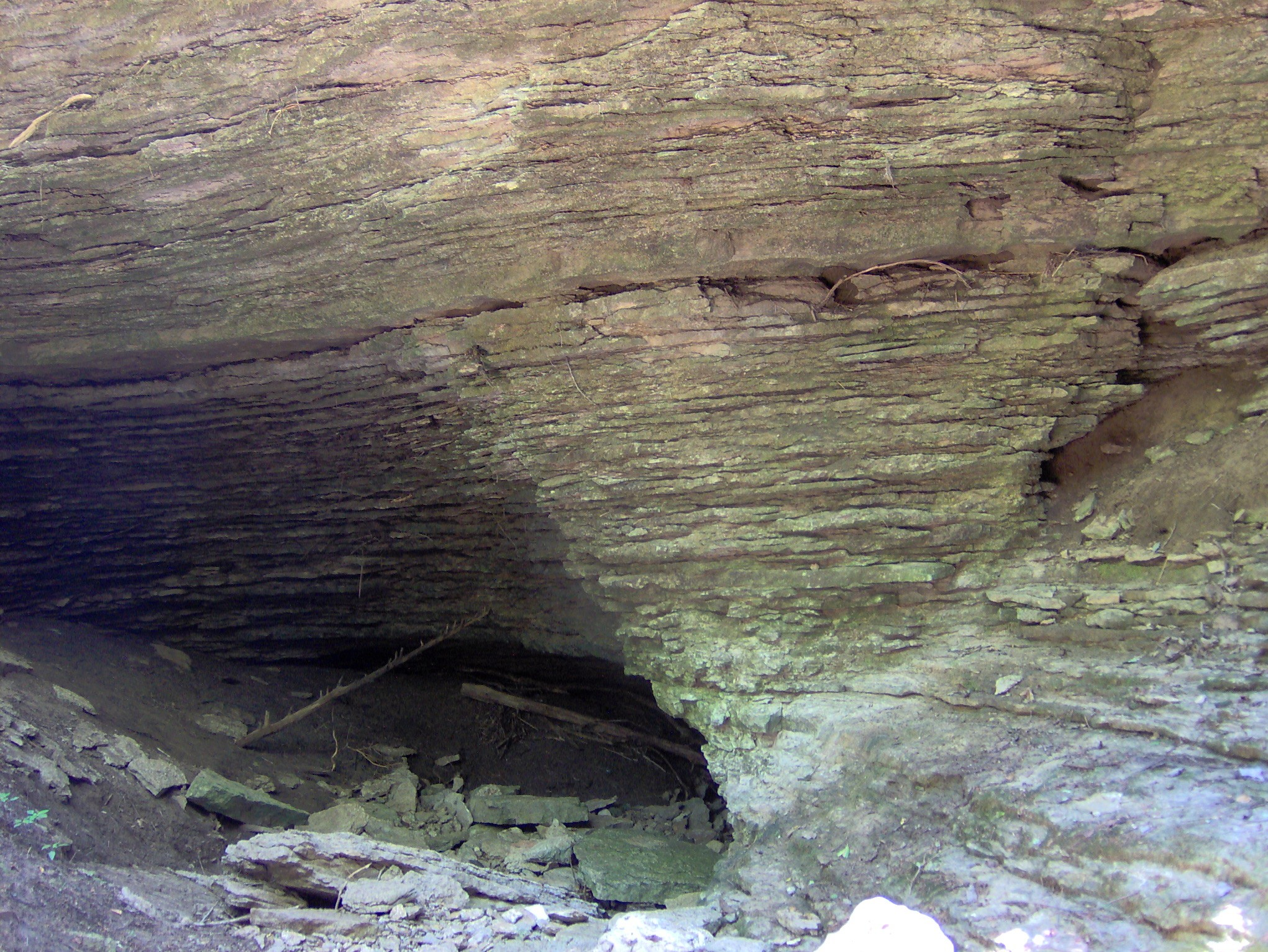 The wall of a large sinkhole at Cedars of Lebanon State Park in Wilson County, Tennessee, in the southeastern United States. This sinkhole is at the end of a long dry streambed. The Hidden Springs Trail crosses the streambed.